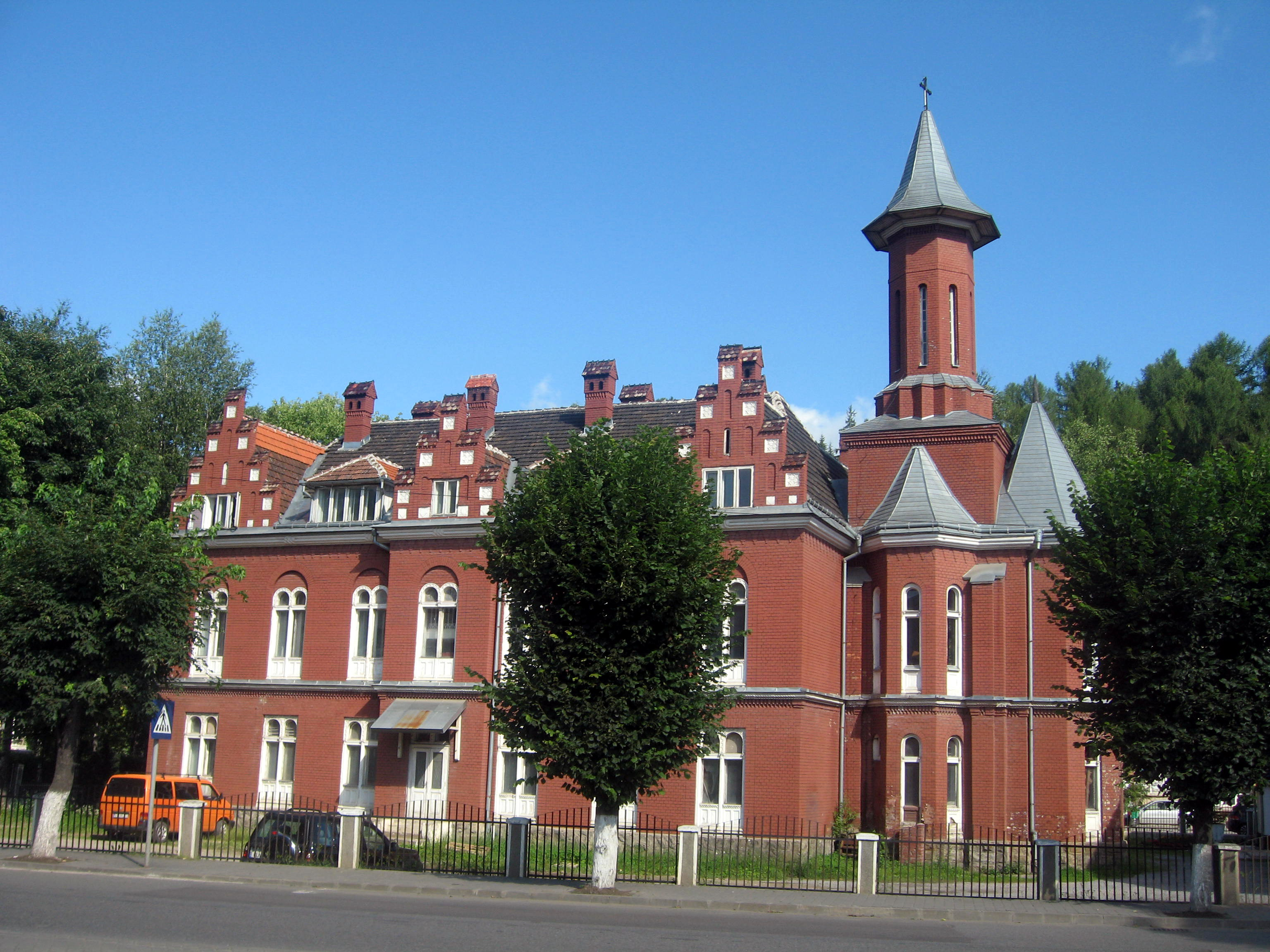 Vladimir House in Vatra Dornei, Romania, built in 19 century